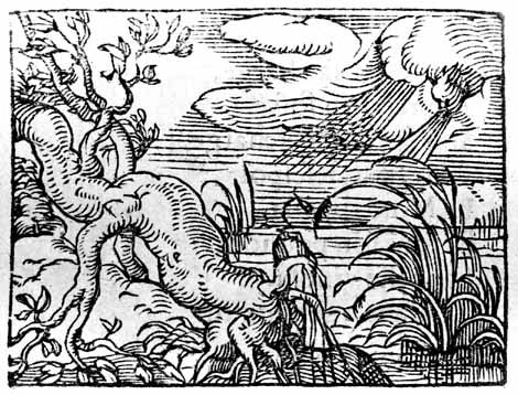 Bernard Salmon's woodcut for the fable of the olive tree and the reeds from a collection of Aesop's Fables in French rhyme, 1547